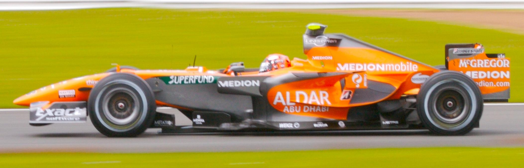 Christijan Albers driving for Spyker F1 at the 2007 British Grand Prix.